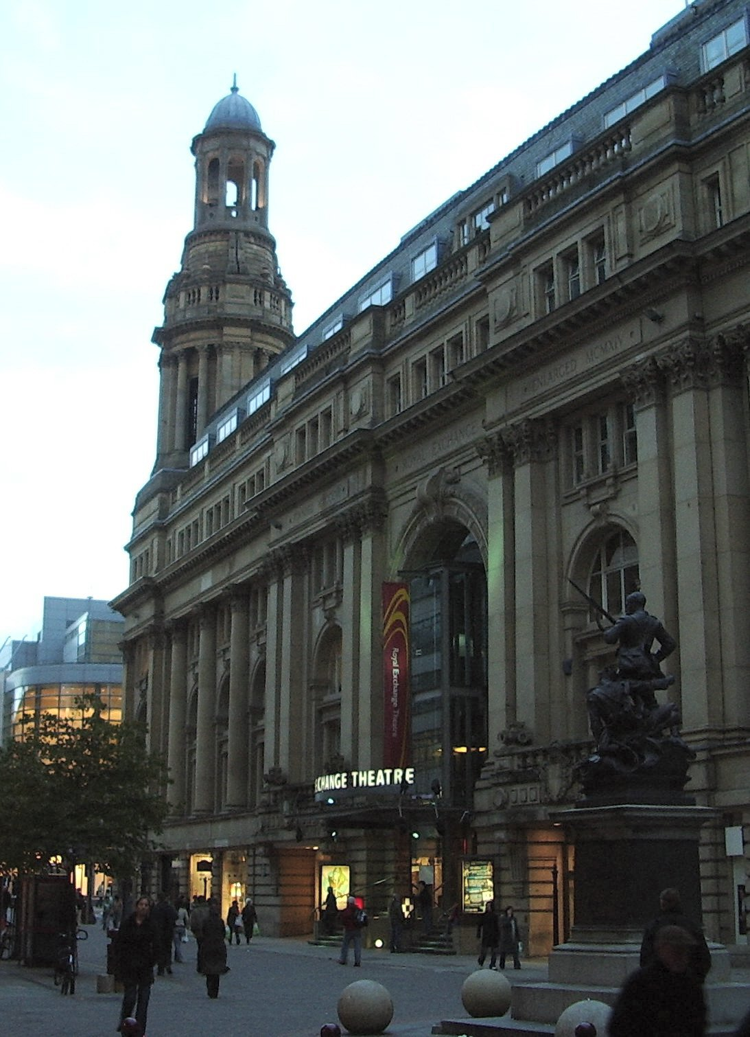 Royal Exchange Manchester, photograph taken by Lmno on 9 Oct 2004 Category:Images of Manchester